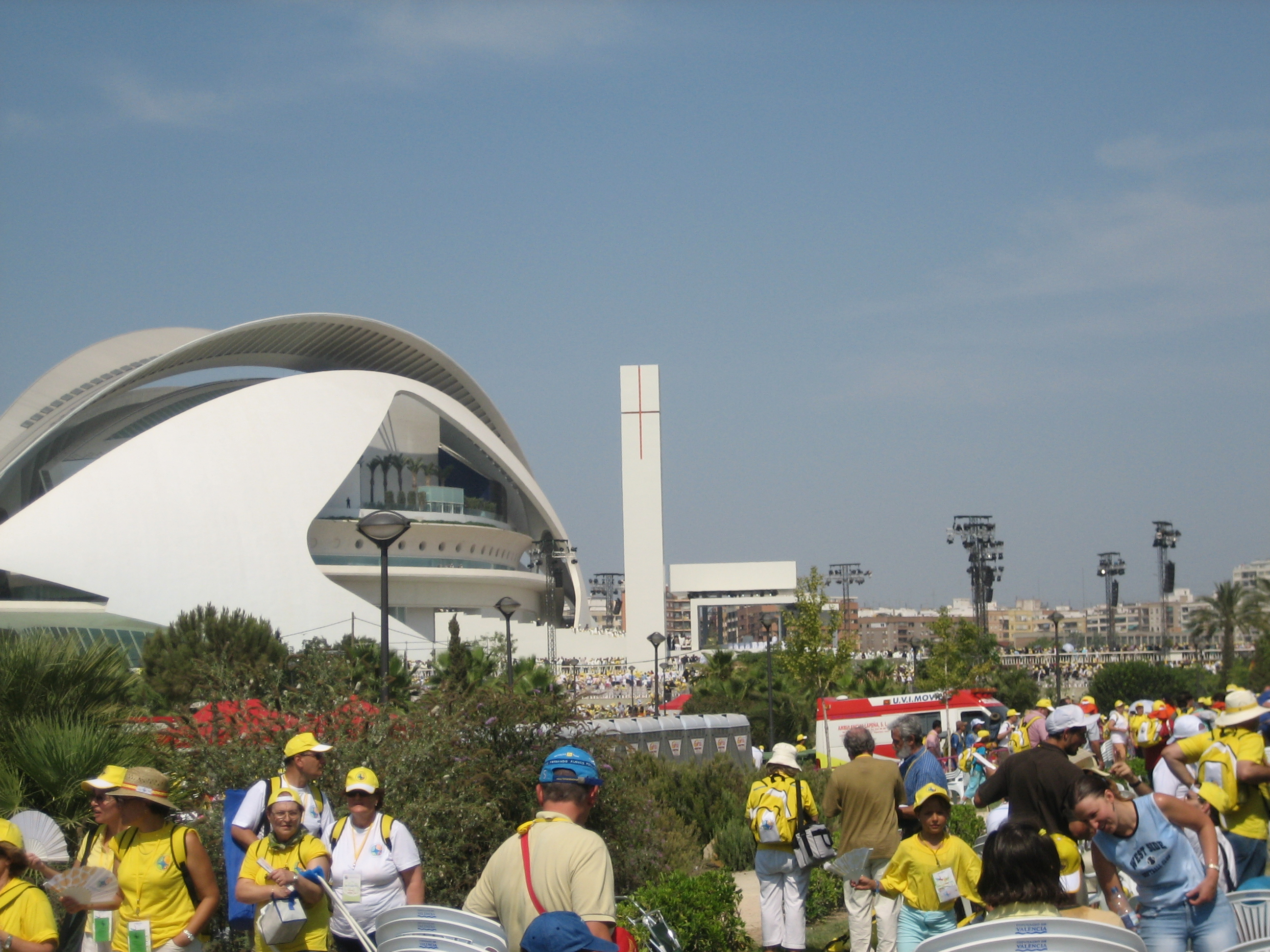 Eucharist presided by the Holy Father Benedict XVI the last day (July, the 9th of 2006) of the 5th World Meeting of Families celebrated in Valencia.